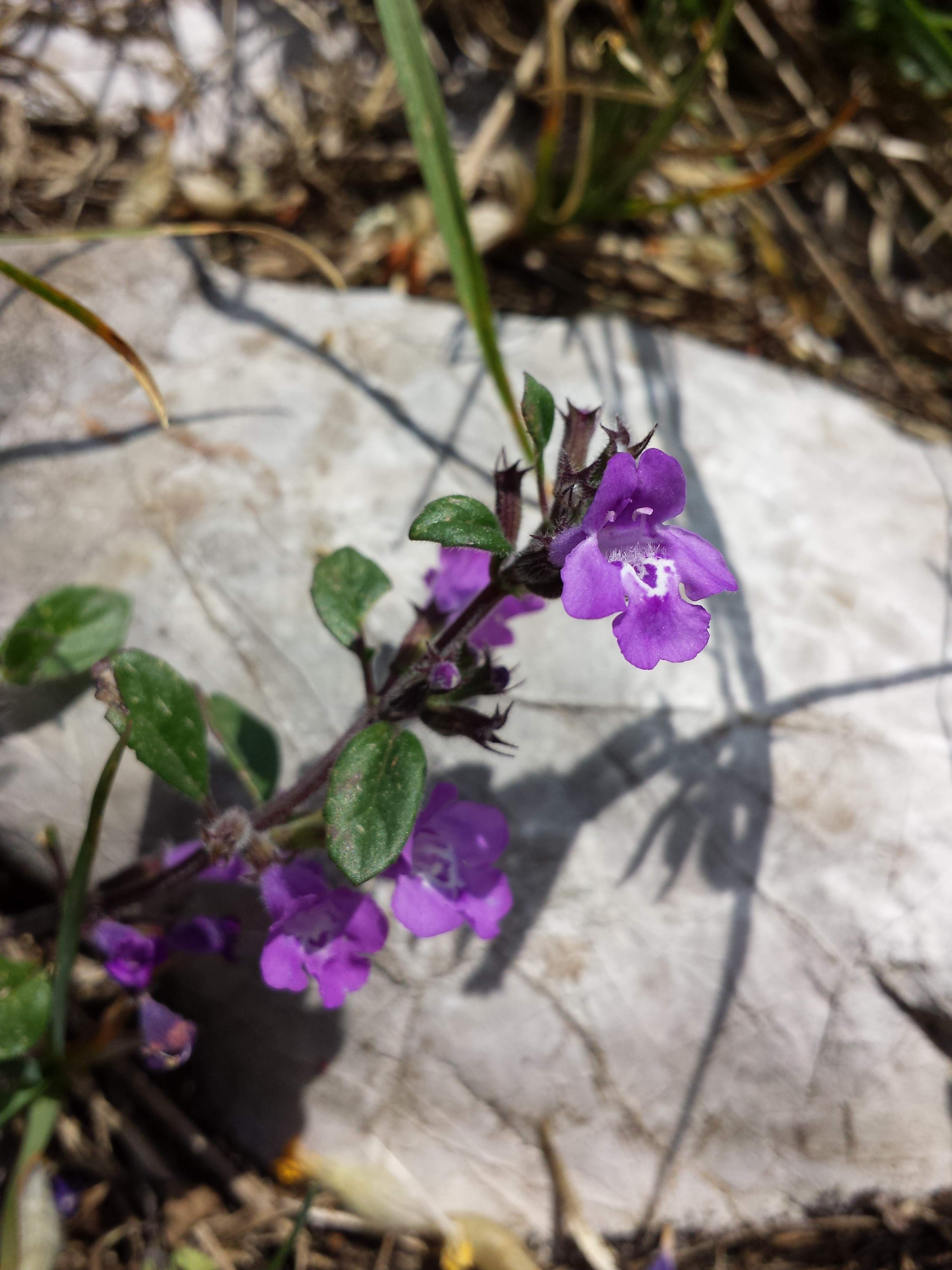 Inflorescence Taxonym: Clinopodium alpinum subsp. alpinum ss Fischer et al. EfÖLS 2008 ISBN 978-3-85474-187-9 Location: Ötscher, district Scheibbs/Lilienfeld, Lower Austria - ca. 1500 m a.s.l. Habitat: rocks of Limestone